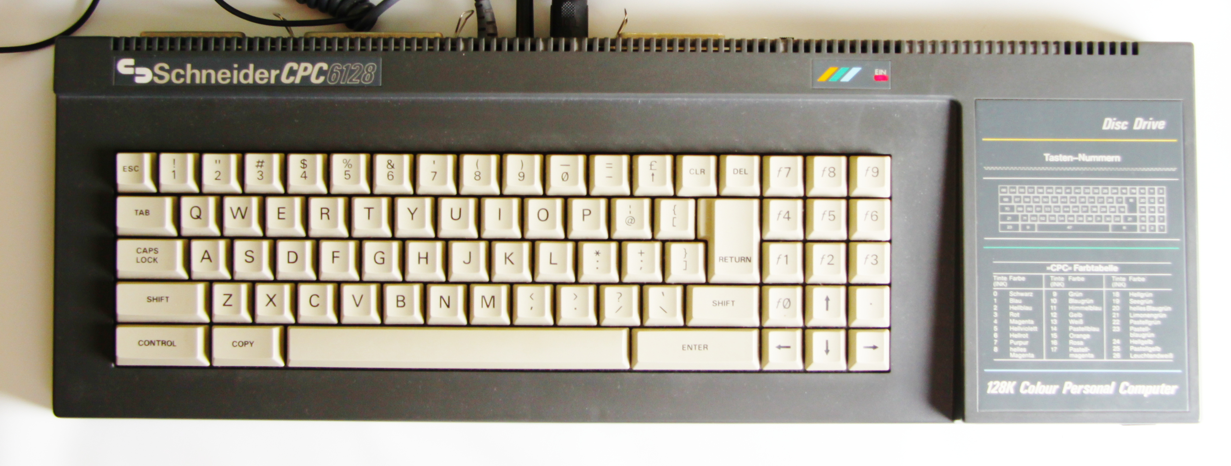 Schneider CPC6128 keyboard